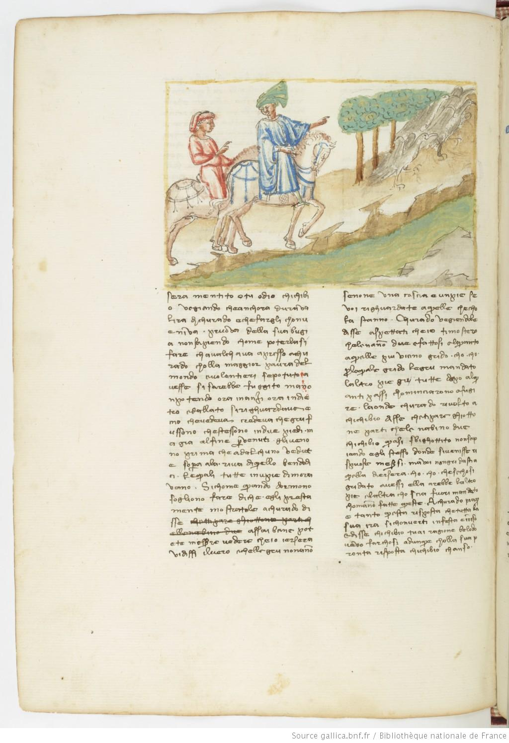 BNF MS Italien 63, fol. 199v: Boccaccio, Decameron: tale 6.4